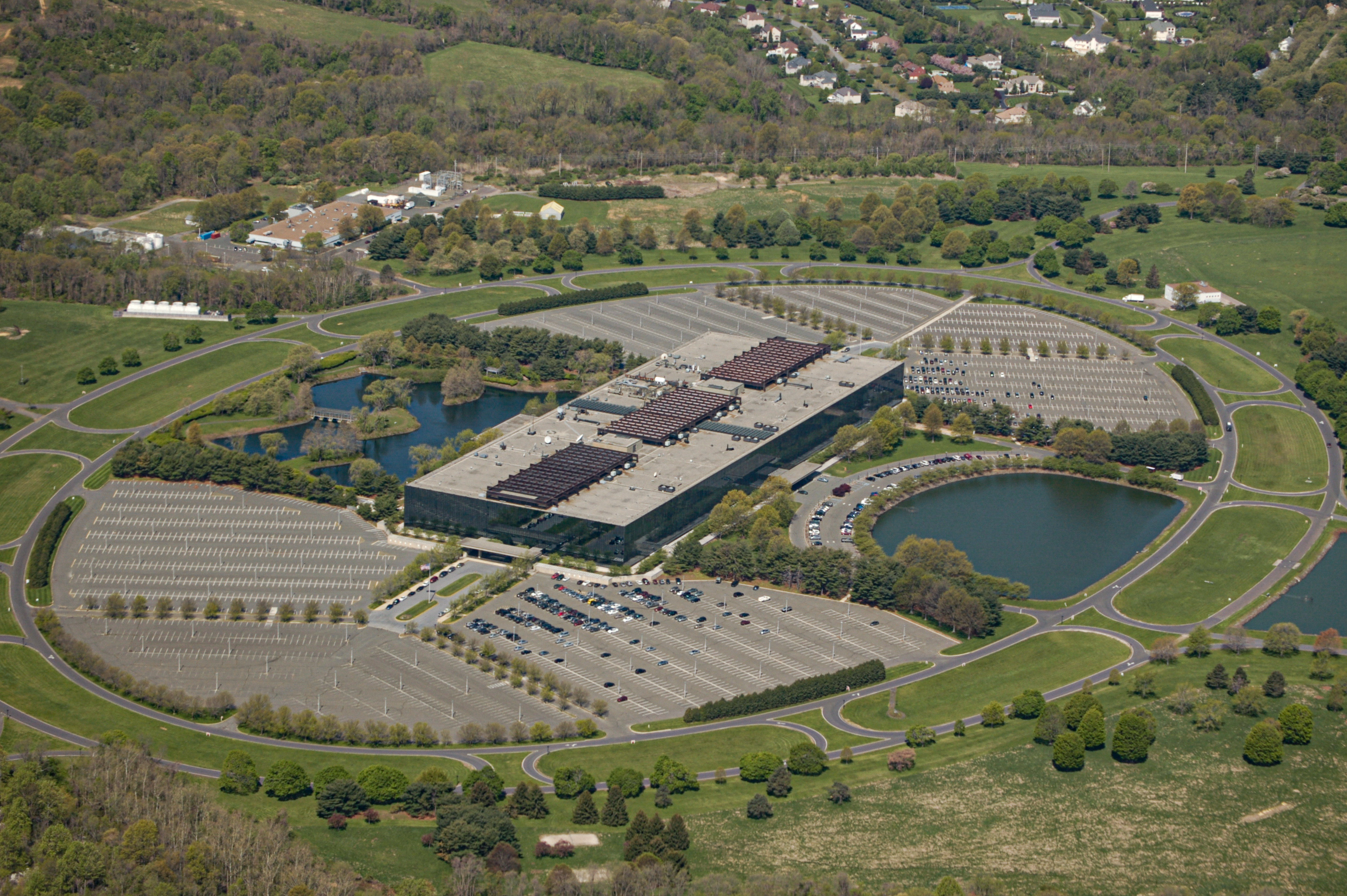 The Bell Labs building in Holmdel is an architectural heirloom, designed by renowned architect Eero Saarinen, with a proud and distinguished history. It has been sold, and the fate of the building and property lies in the hands of the developer and the town of Holmdel. See for more information.